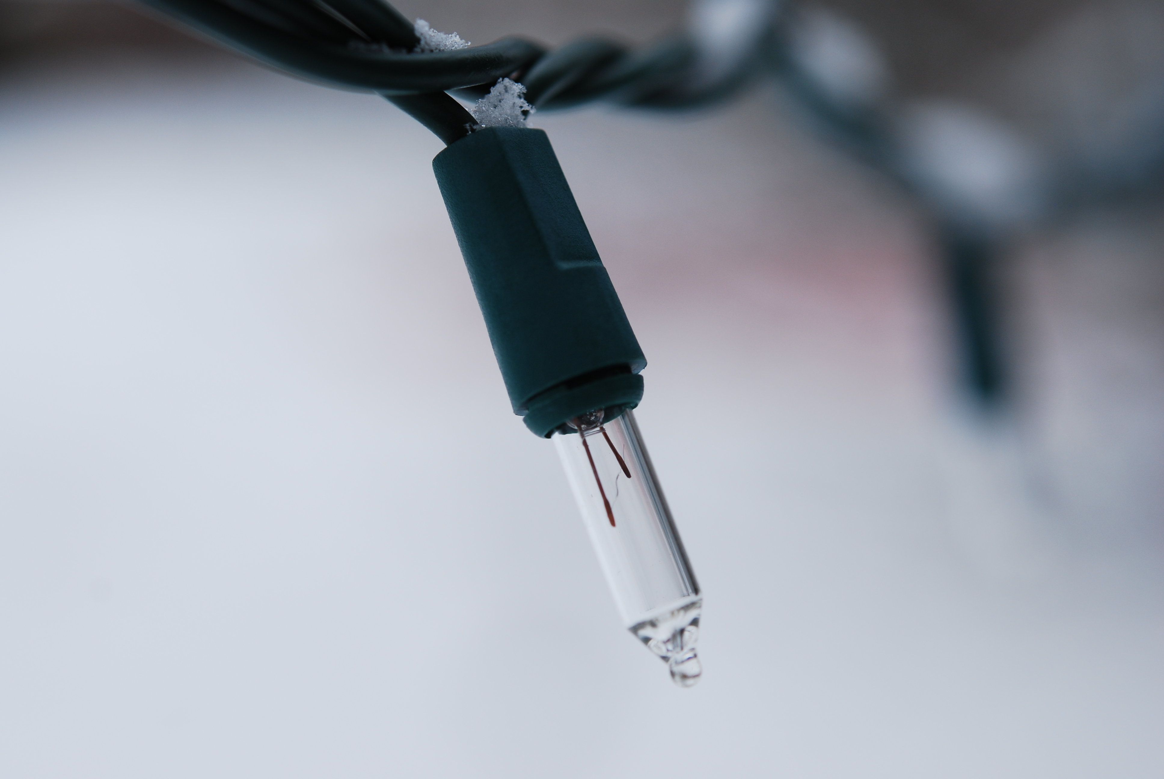 Closeup picture of a miniature Christmas string light